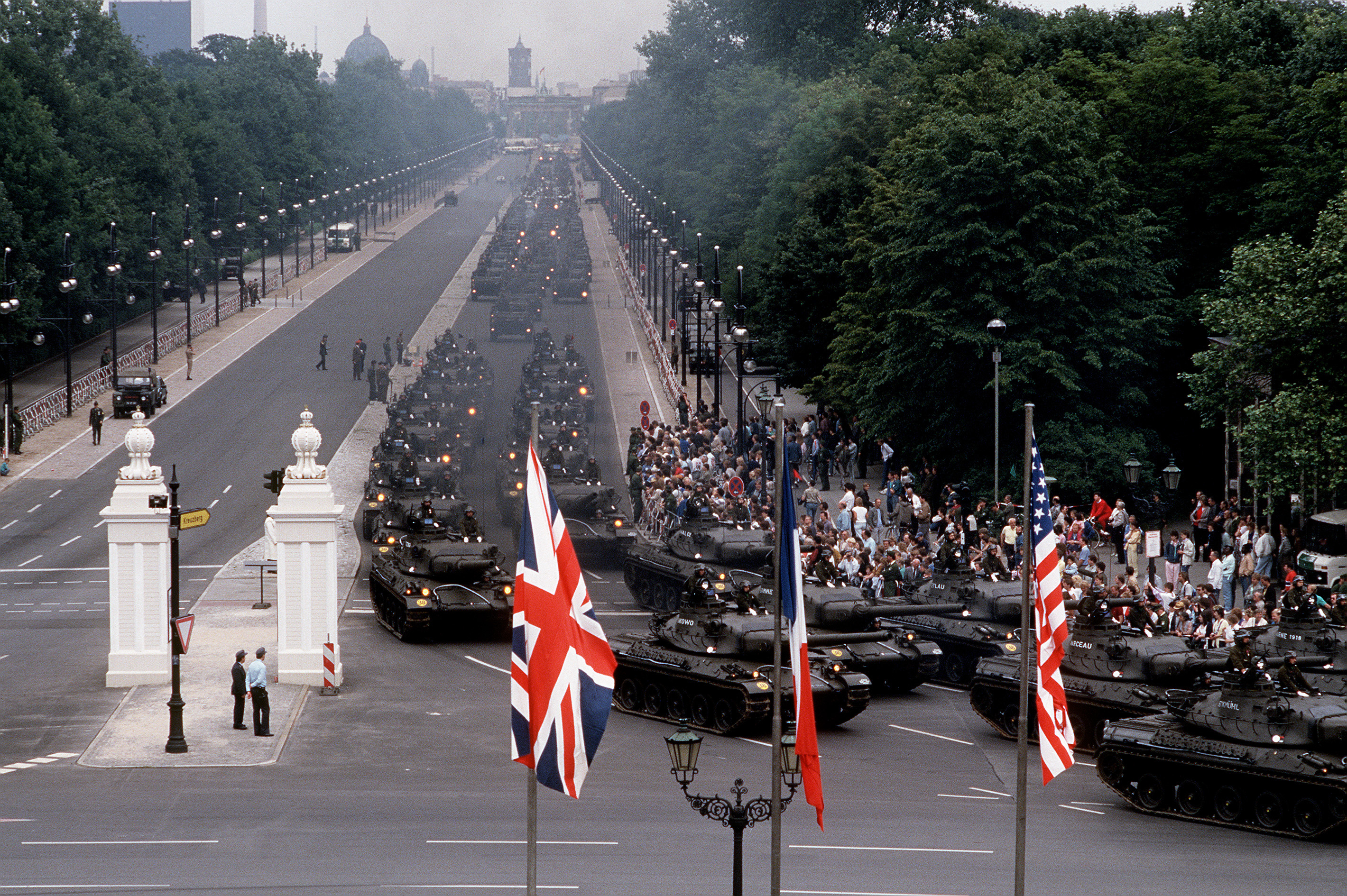 A French armored unit drives its AMX-30 main battle tanks out of the staging area at the start of the annual Allied Forces Day parade.